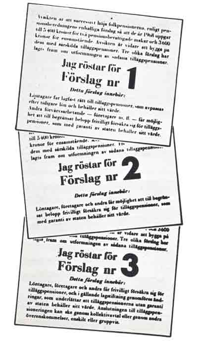 Ballots for the Swedish referendum on reforming the pensions system 1957